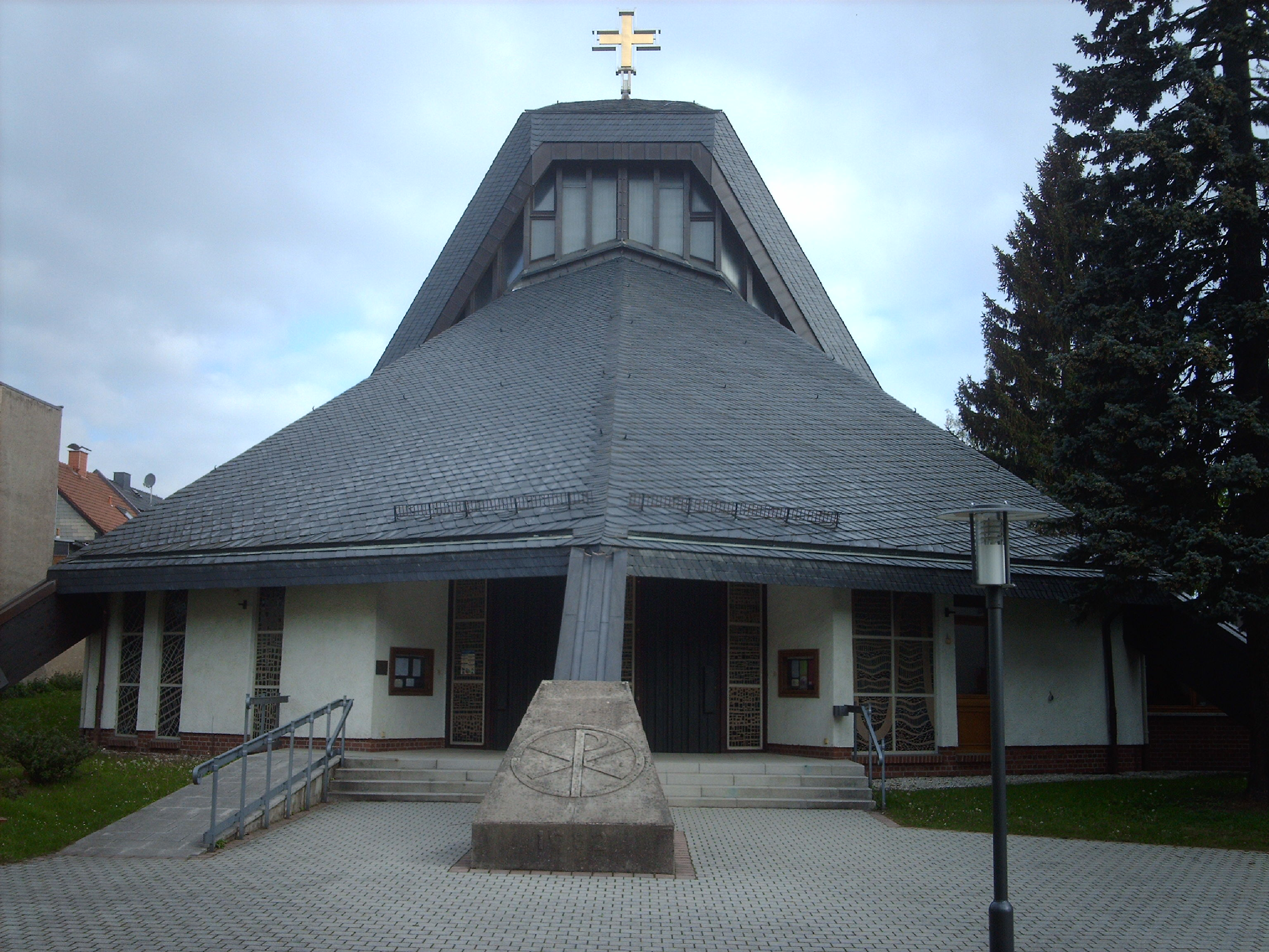 St. Joseph church in Ilmenau